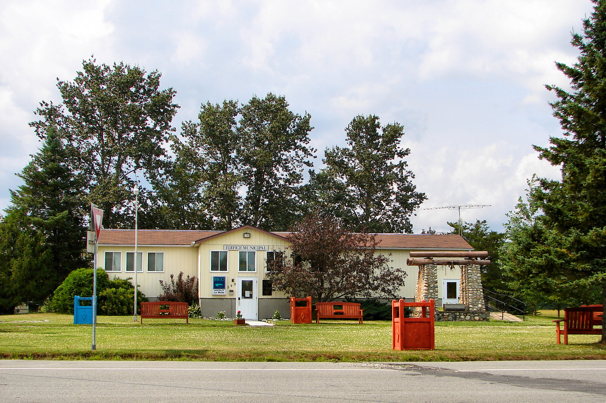 Municipal office of La Motte, Quebec, Canada